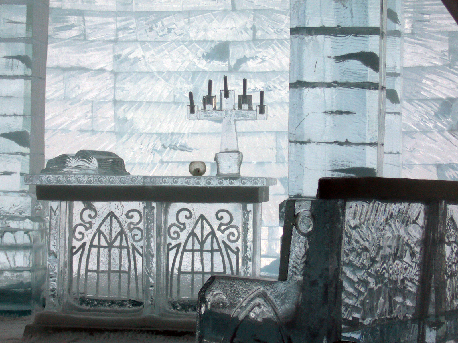 Ice Hotel Chapel, Quebec (February, 2006). Originally uploaded to the English project.